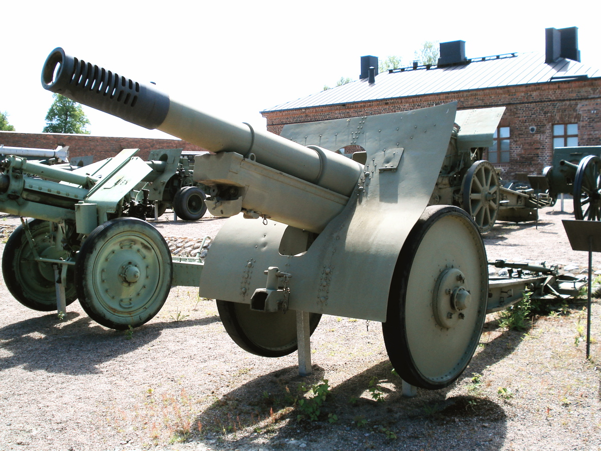 Soviet 152-mm gun M1910/30 howitzer, displayed in Hämeenlinna Artillery Museum. The Finns captured this gun in 1941-1944. It is a quite rare weapon, manufactured in 1934. Photo taken on June 18, 2006. Source: Photo by me, User:Balcer.